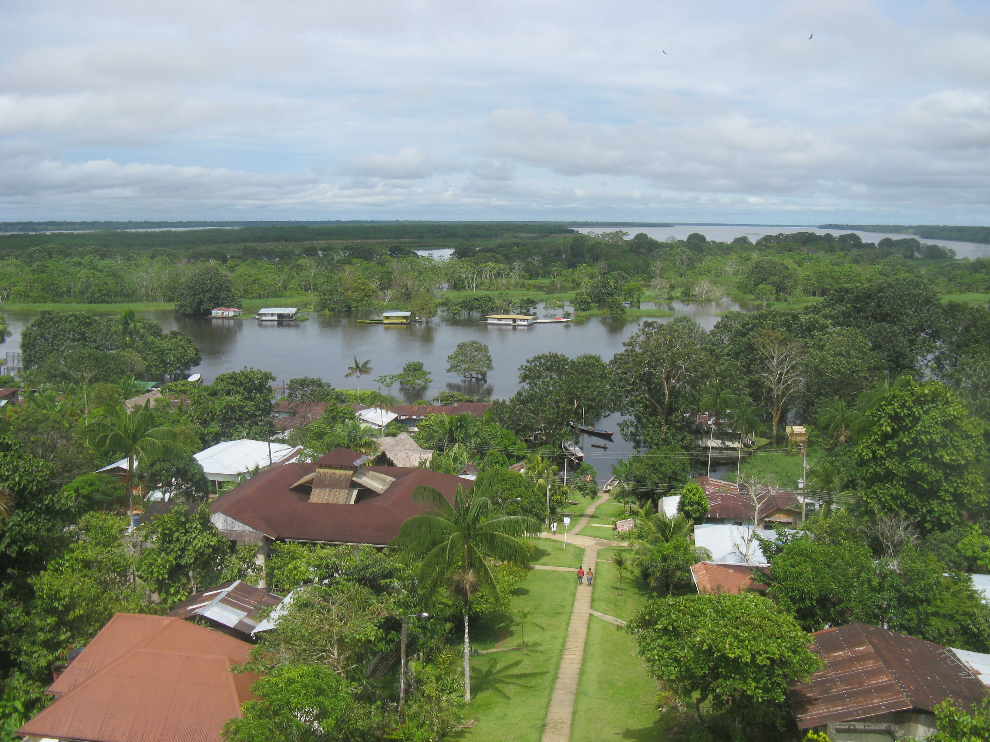 Looking down on Puerto Narino and the Amazon from the viewing platform in the village.